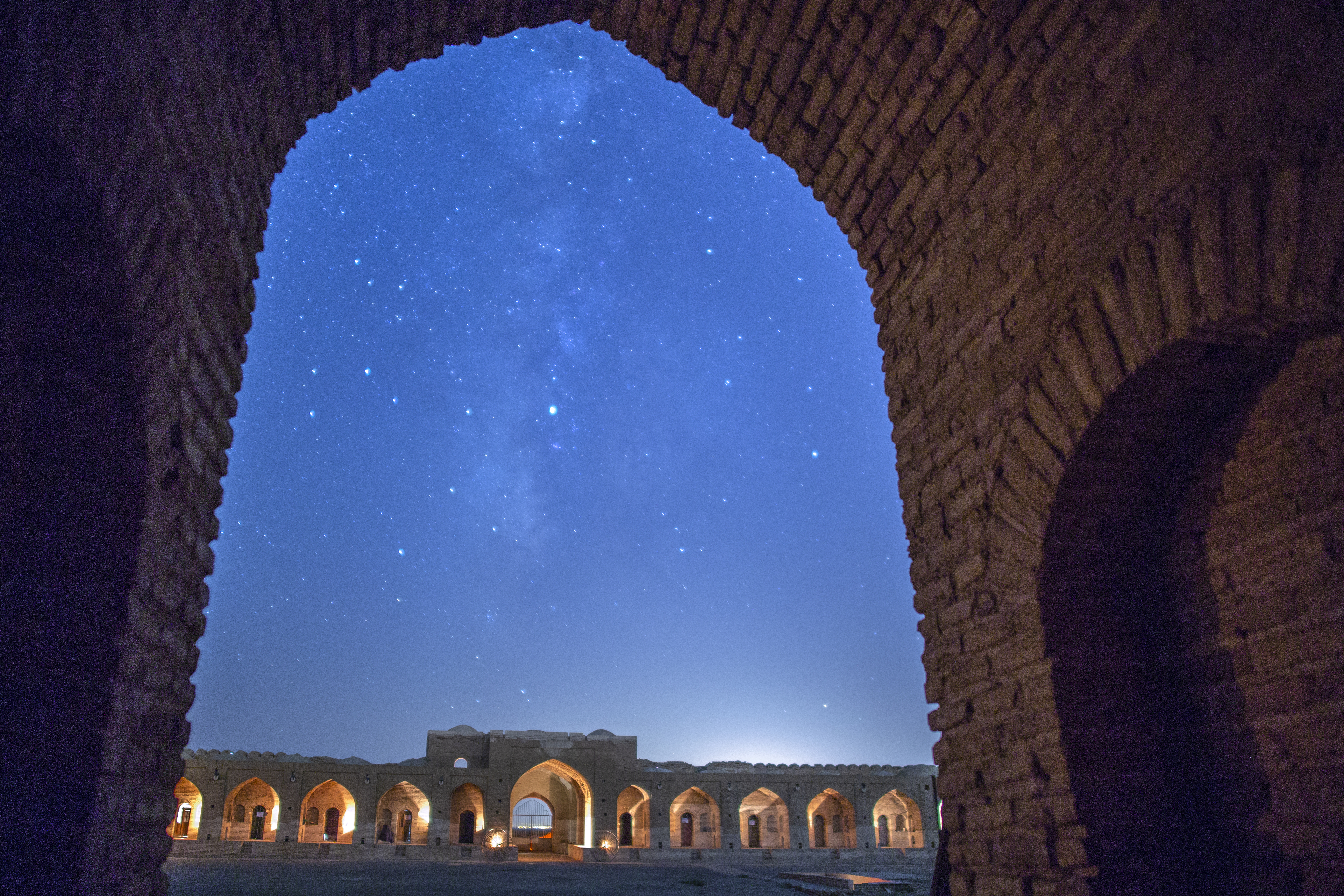 Deir-e Gachin Caravansarai is one of the greatest caravansarais of Iran which is located in the center of Kavir National Park. Its unique qualities is the reason it is called “Mother of Iranian Caravansarais”.